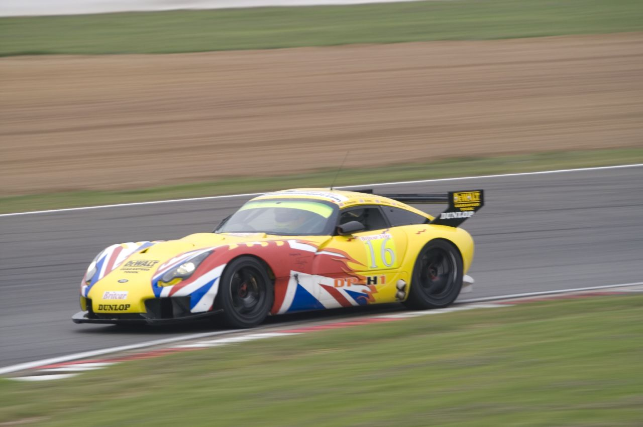 A TVR Sagaris at the 2007 Britcar 24 Hours race.